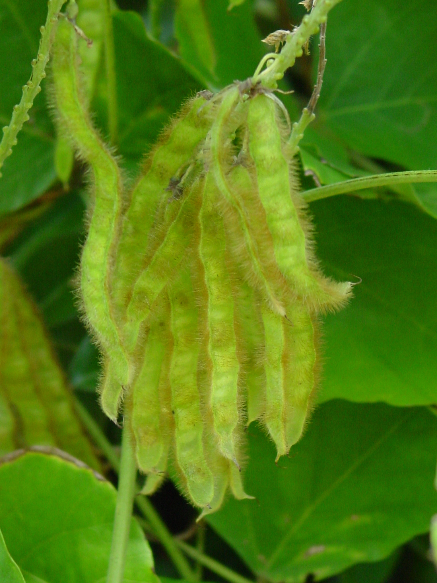 Kudzu (Pueraria lobata) seed pods. On Shades Mountain near Birmingham, Alabama, USA during exceptional drought.